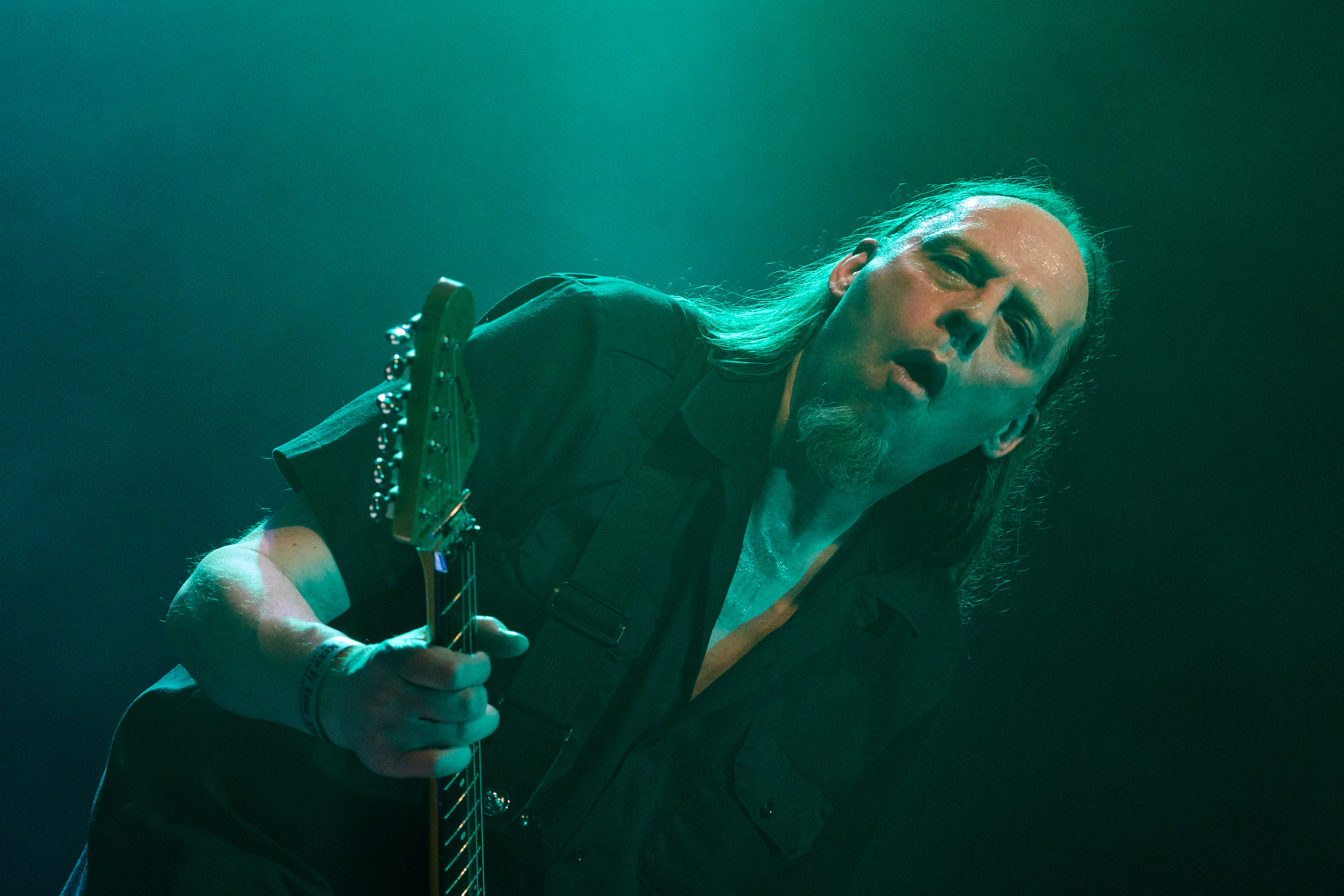 British band Candlemass at Hammer of Doom Festival, Würzburg, Posthalle, 21.11.2015 Festivalsommer This photo was created with the support of donations to Wikimedia Deutschland in the context of the CPB project "Festival Summer". Personality rights warning Although this work is freely licensed or in the public domain, the person(s) shown may have rights that legally restrict certain re-uses unless those depicted consent to such uses. In these cases, a model release or other evidence of consent could protect you from infringement claims.